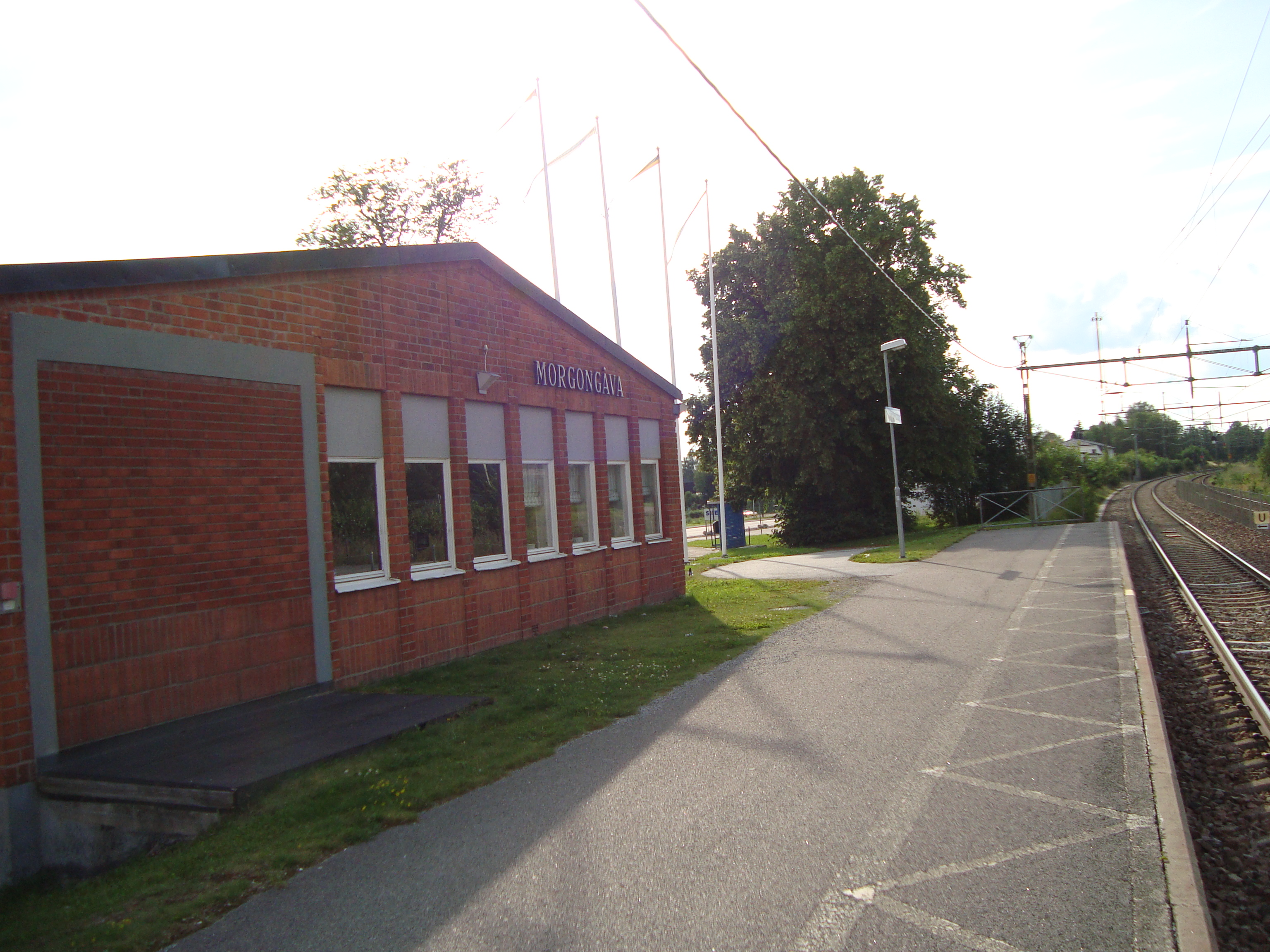 Railroad platform (former station) of Morgongåva, Heby Municipality, Sweden